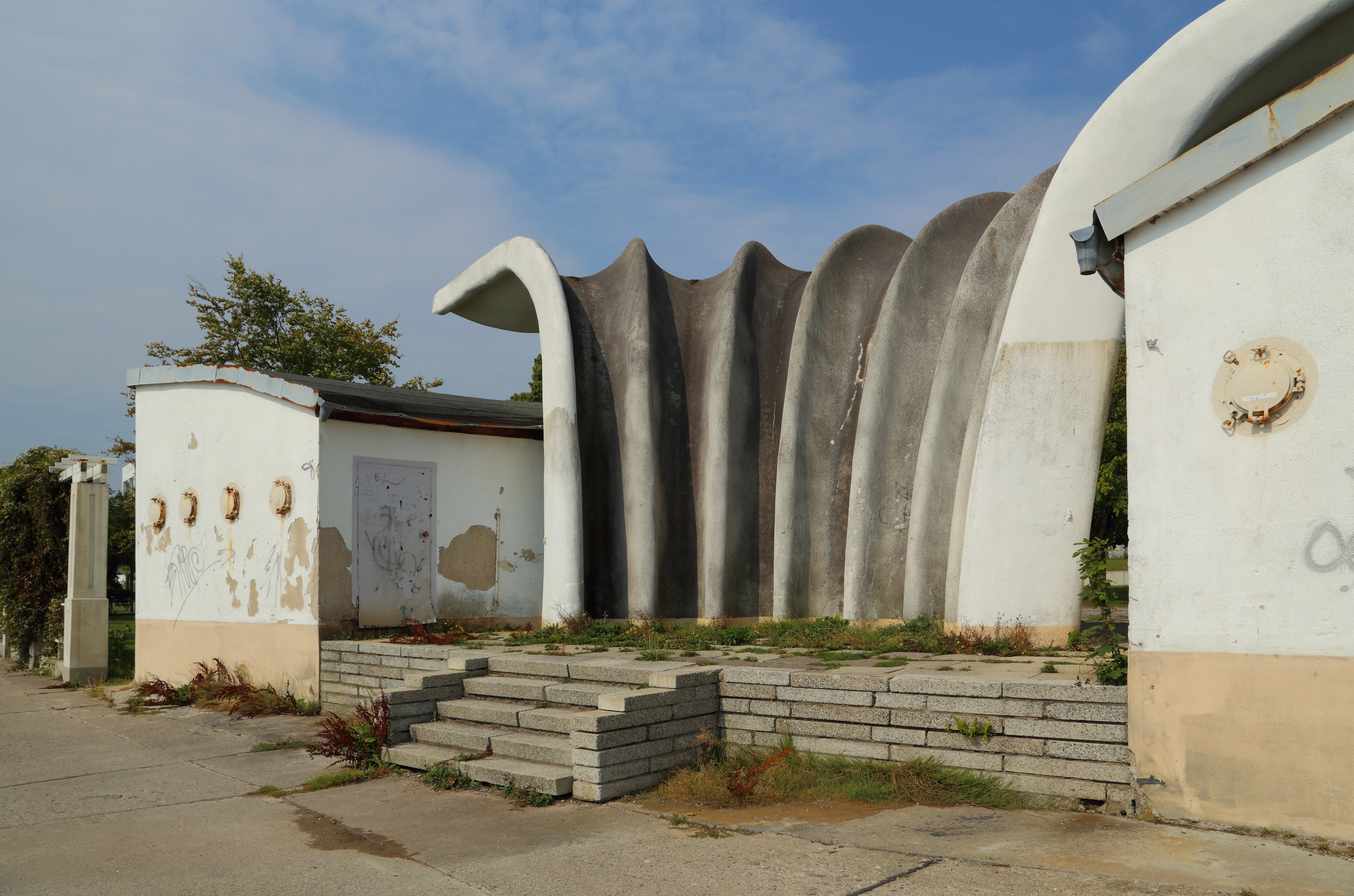 The bandshell Kurmuschel in Sassnitz, Landkreis Vorpommern-Rügen, Mecklenburg-Vorpommern, Germany. This listed cultural heritage monument is situated in the Kurplatz.